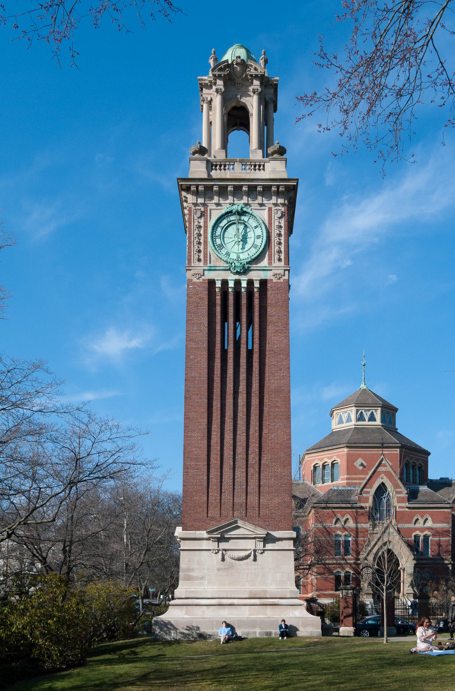 Carrie Tower, south side. Perspective corrected.